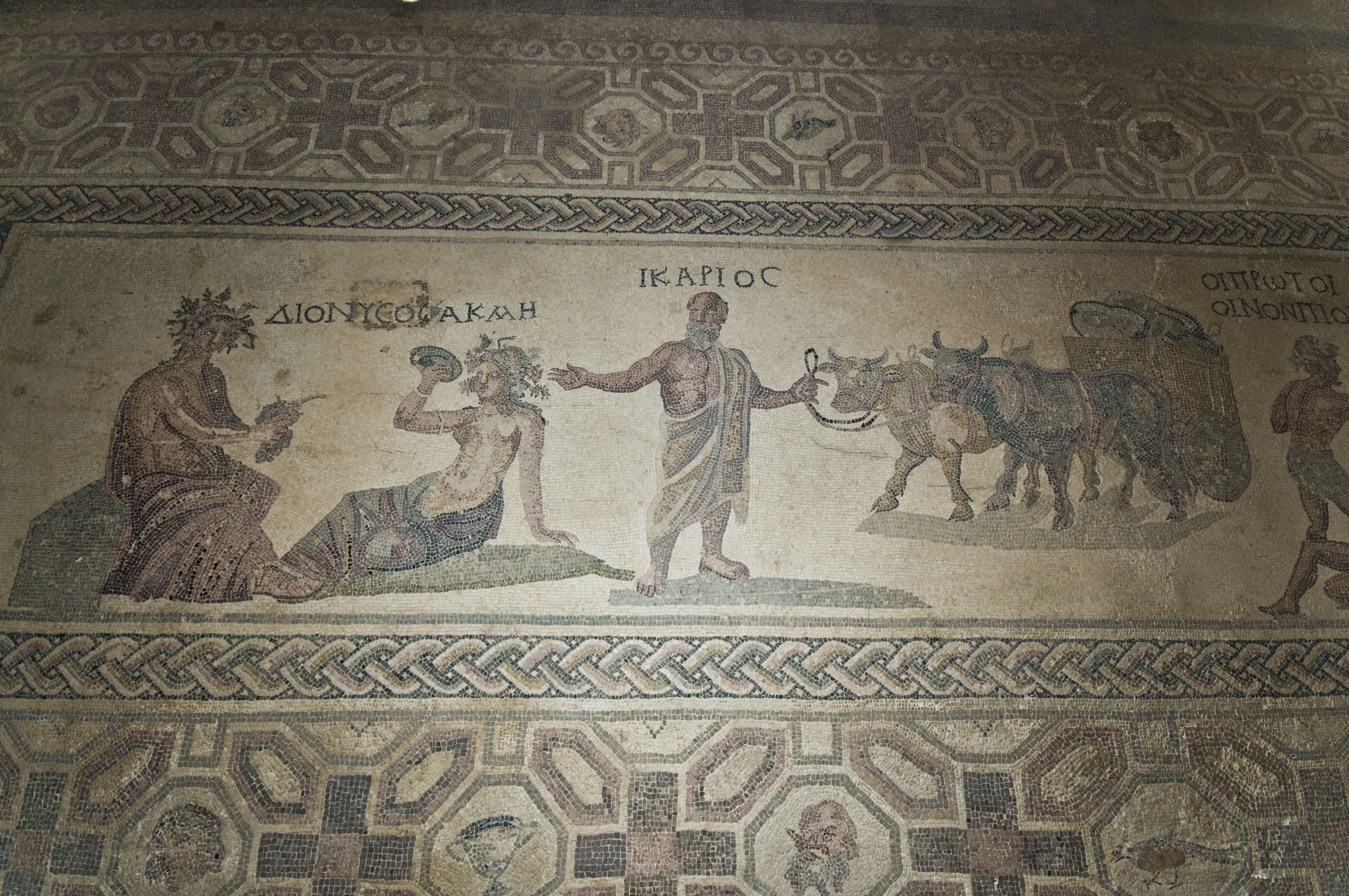 One of the ancient Roman mosaics in House of Dionysos, Paphos, Cyprus. It tells the story of Icarios from Greek Mythology.